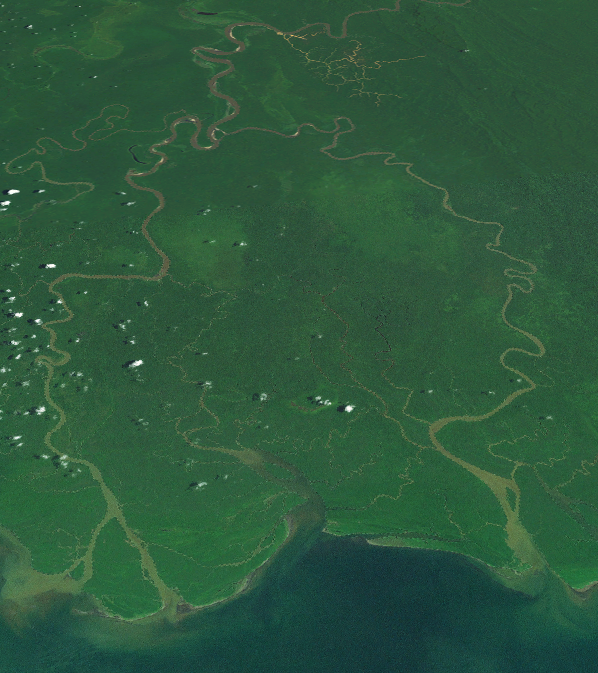 NASA World Wind image of the Purari River